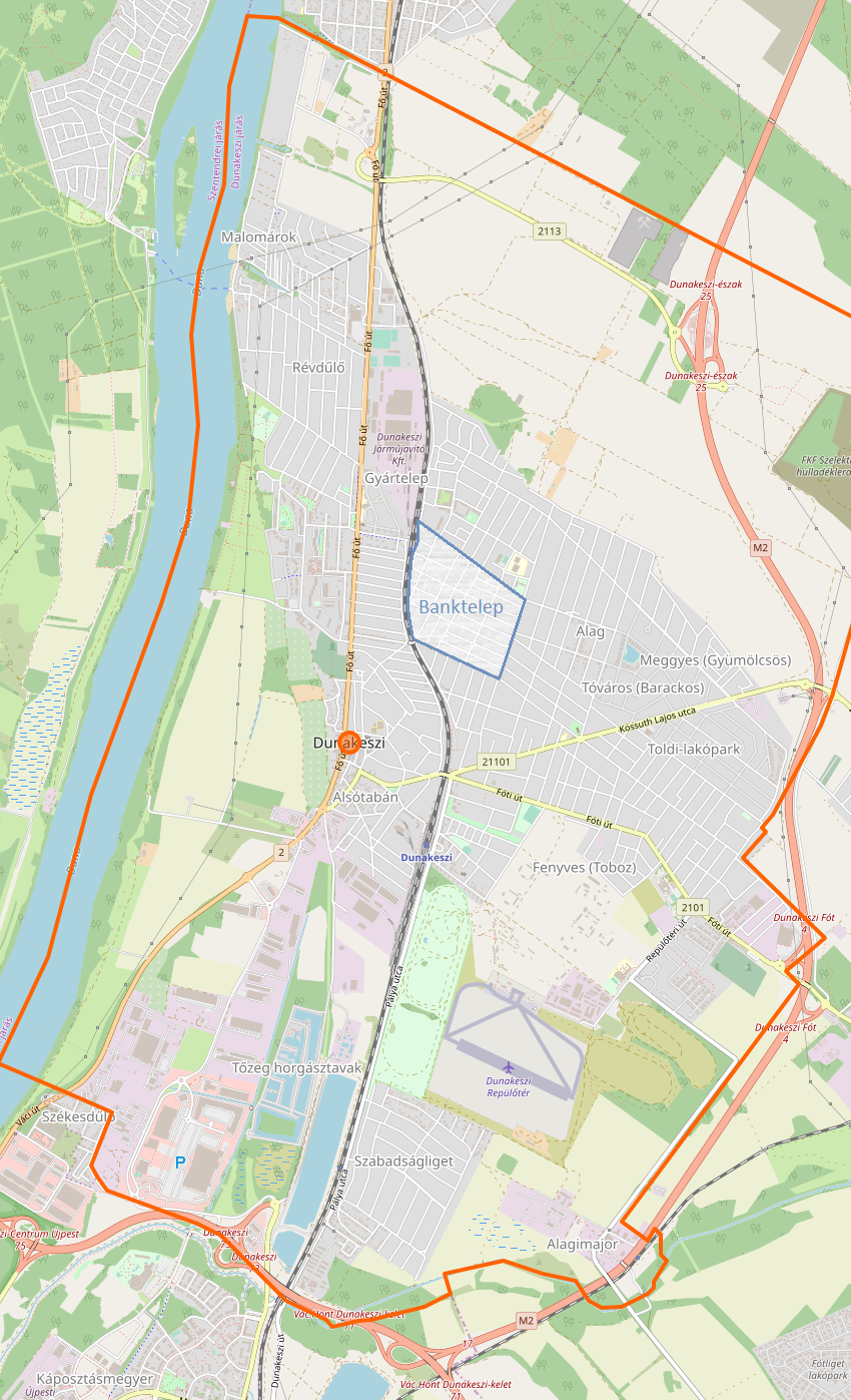 Banktelep Map